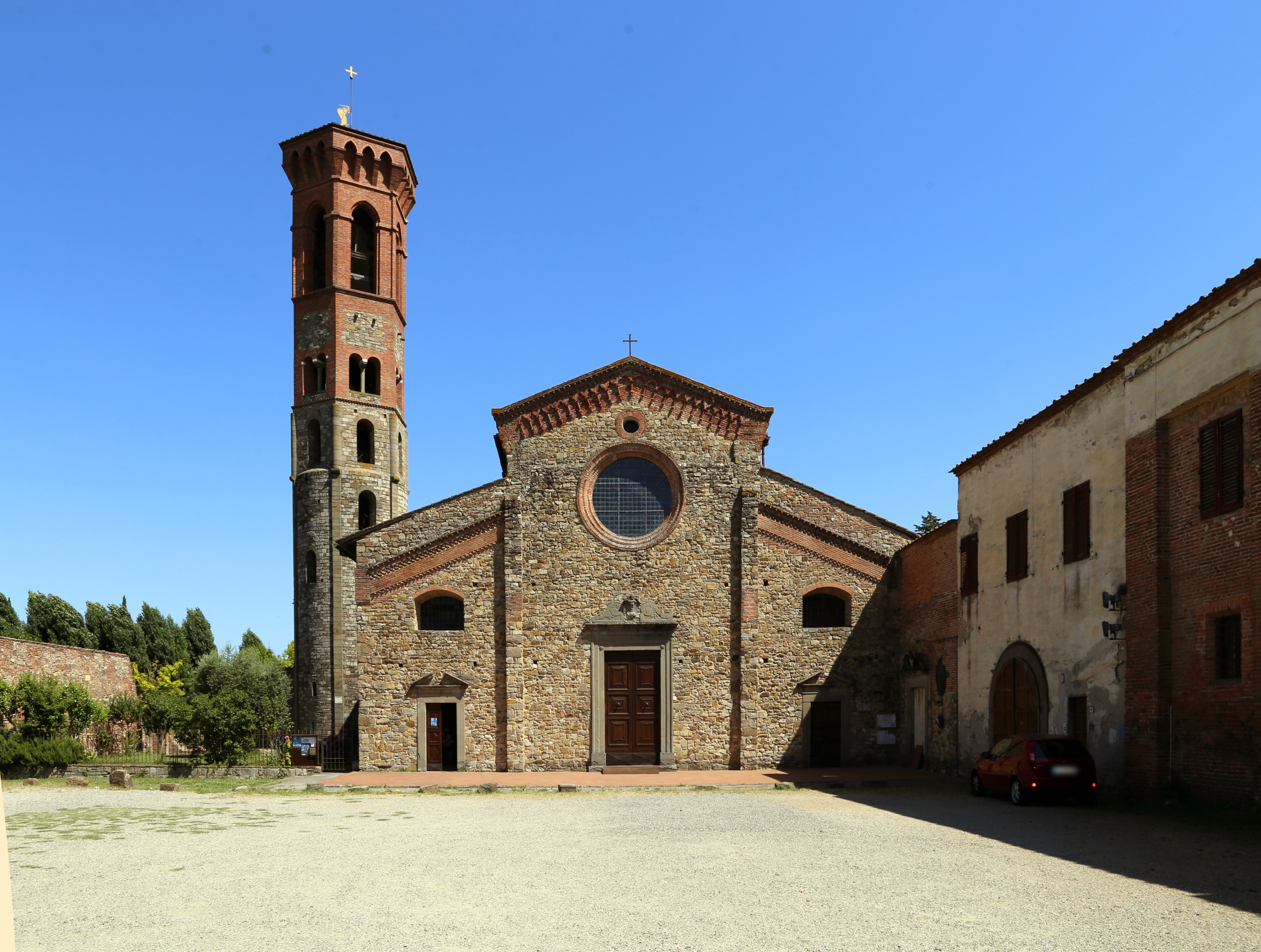 Badia a Settimo